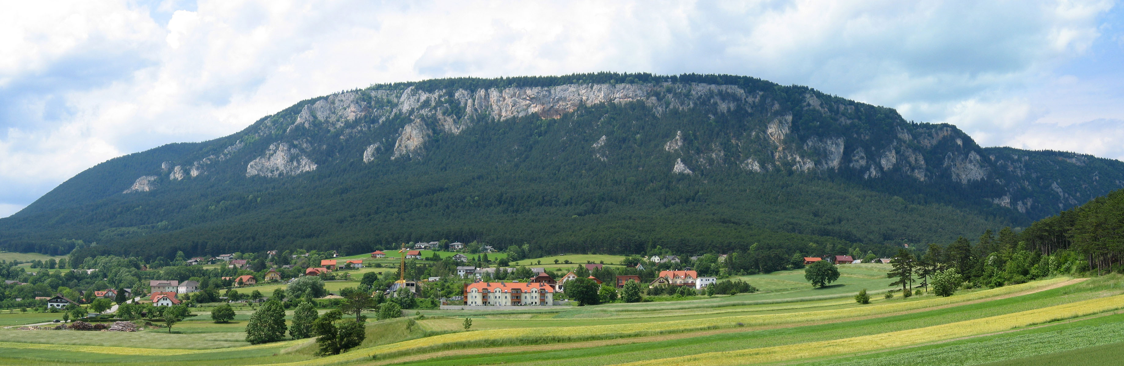 View of the Hohe Wand, Lower Austria, from a point near Unterhöflein.